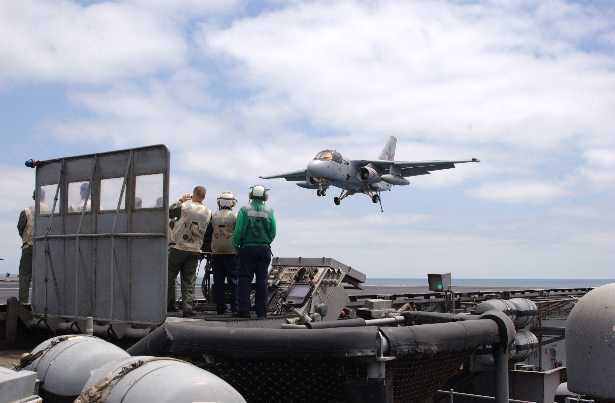 Pacific Ocean (May 1, 2003) -- President George W. Bush successfully traps aboard the USS Abraham Lincoln (CVN 72) in a S-3B Viking assigned to the Blue Wolves of Sea Control Squadron Three Five (VS-35) designated "NAVY 1". President Bush is the first sitting President to trap aboard an aircraft carrier at sea. The President is conducting a visit aboard ship to meet with the Sailors and will address the Nation as Lincoln prepares to return from a 10-month deployment to the Arabian Gulf in support of Operation Iraqi Freedom. U.S. Navy photo by Photographer's Mate Airman Gabriel Piper. (RELEASED)